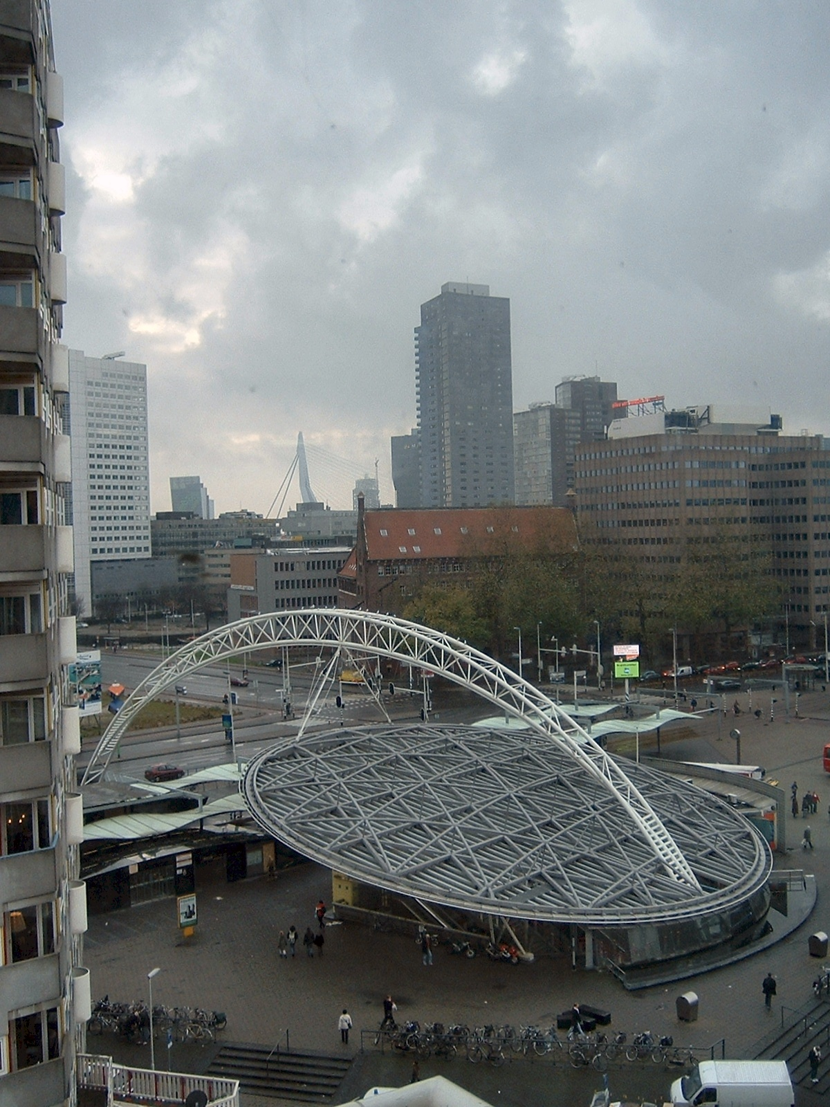 Railroad station Rotterdam Blaak, the Netherlands - own photo